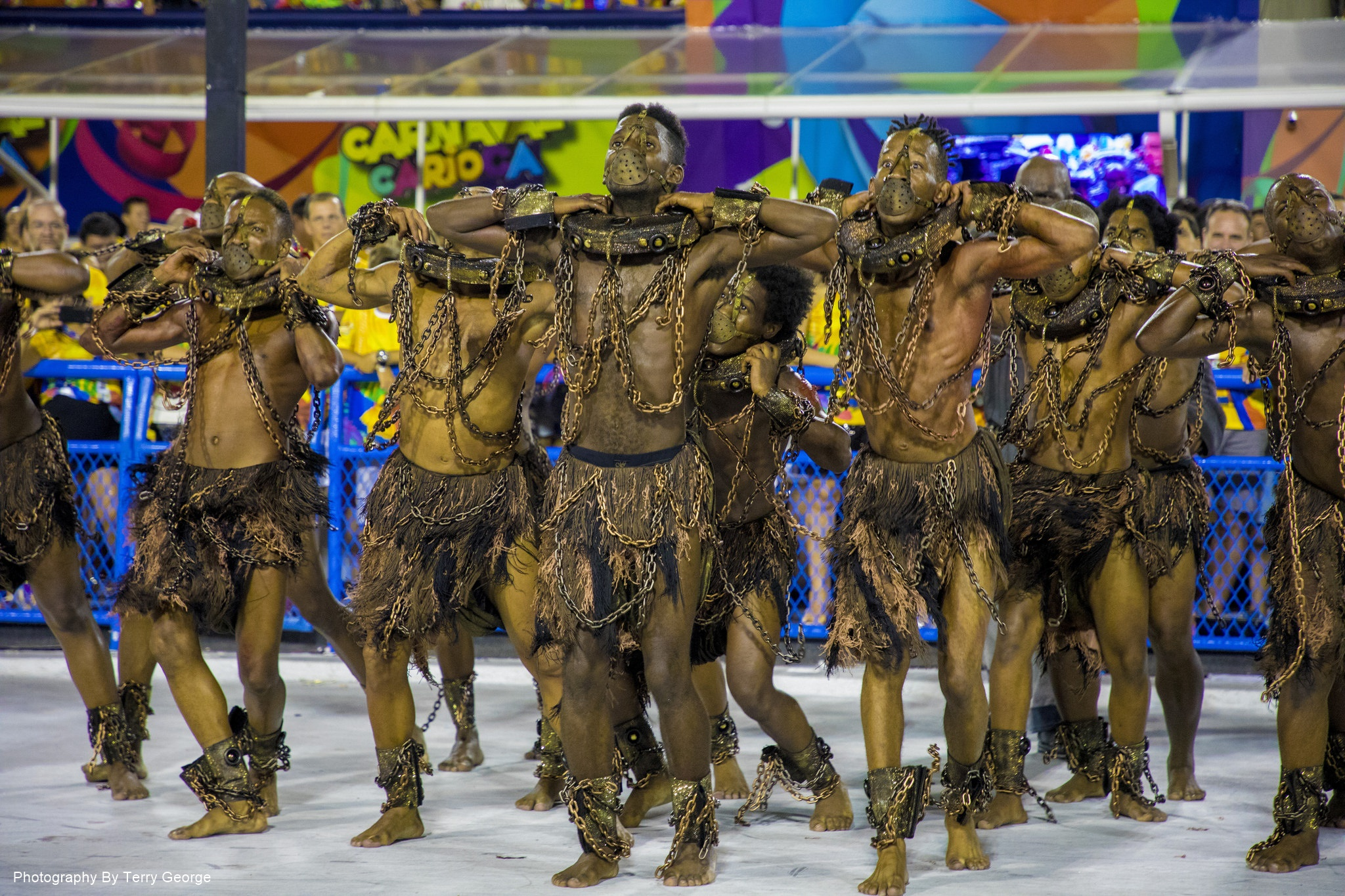 Rio Carnival 2018 By Terry George